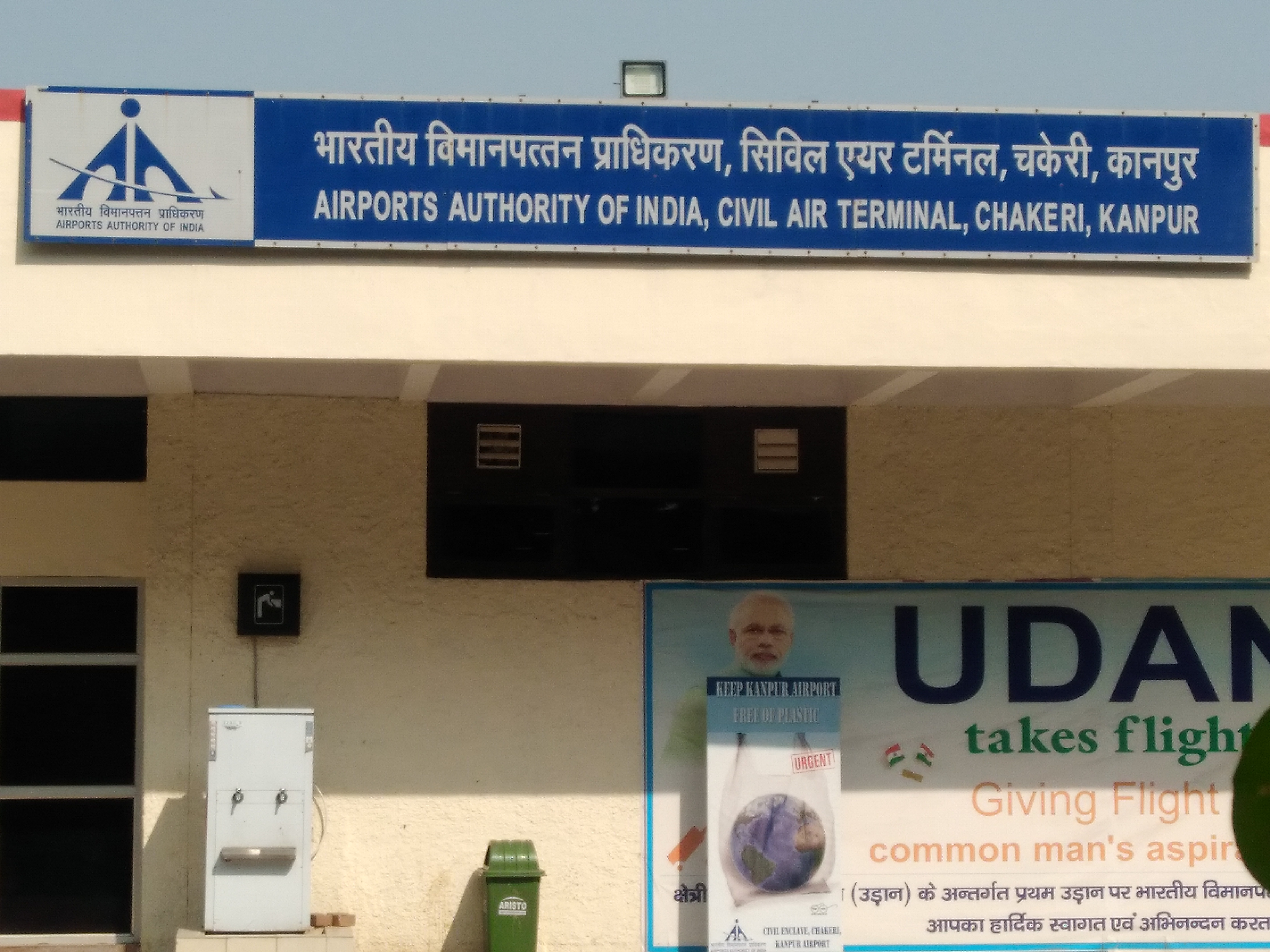 Kanpur Airport